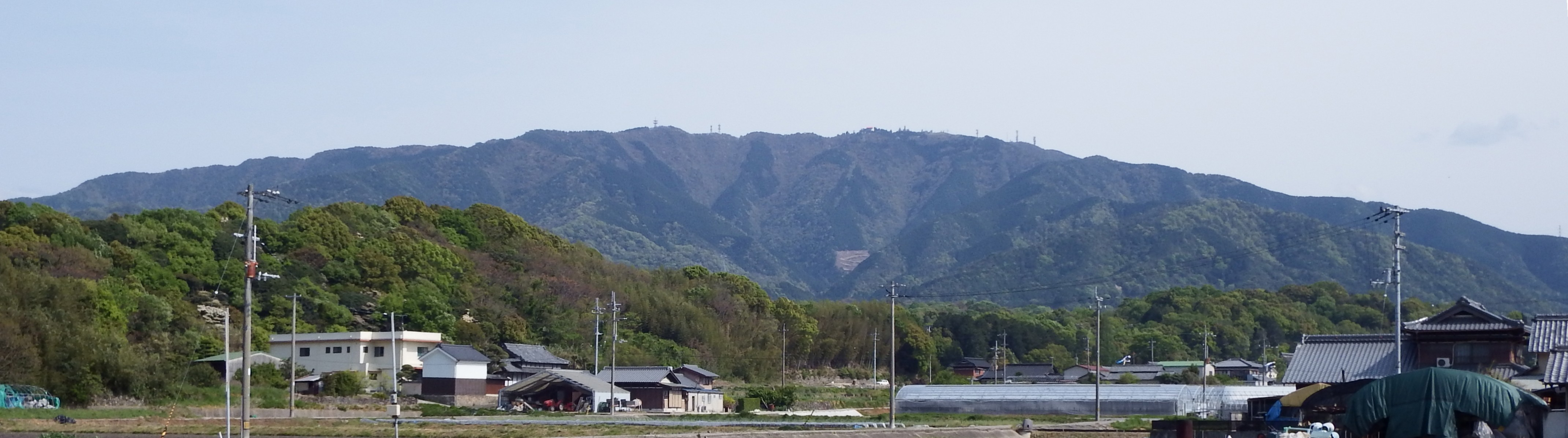 Mount Unpenji as seen from the northwest in Kanonji City, Kagawa Prefecture, Japan. Shot at nearby Hagiwara-ji temple.